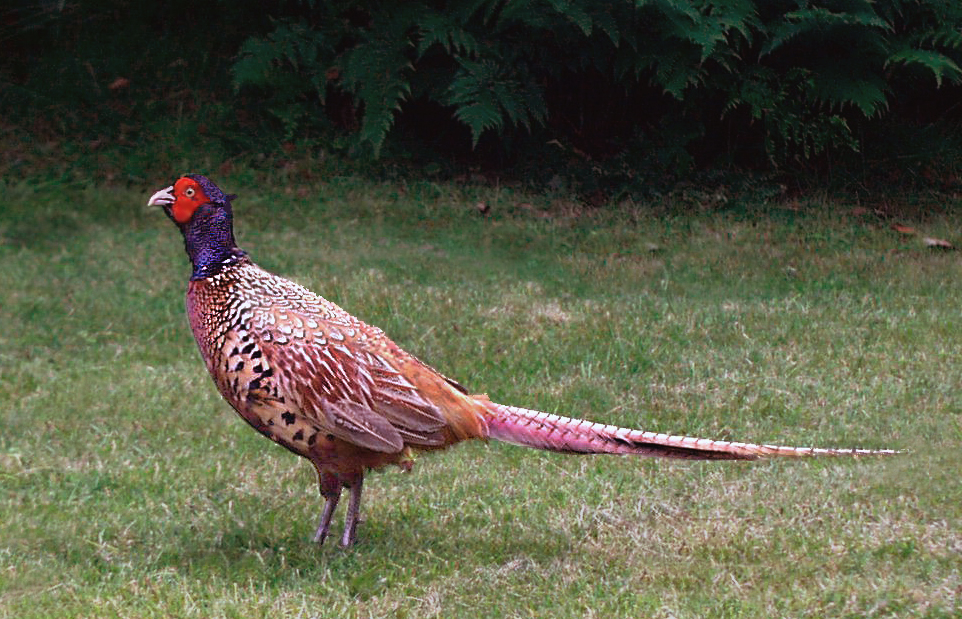 Pheasant cock (Phasianus colchicus), Rindby strand, Fanø, Denmark.